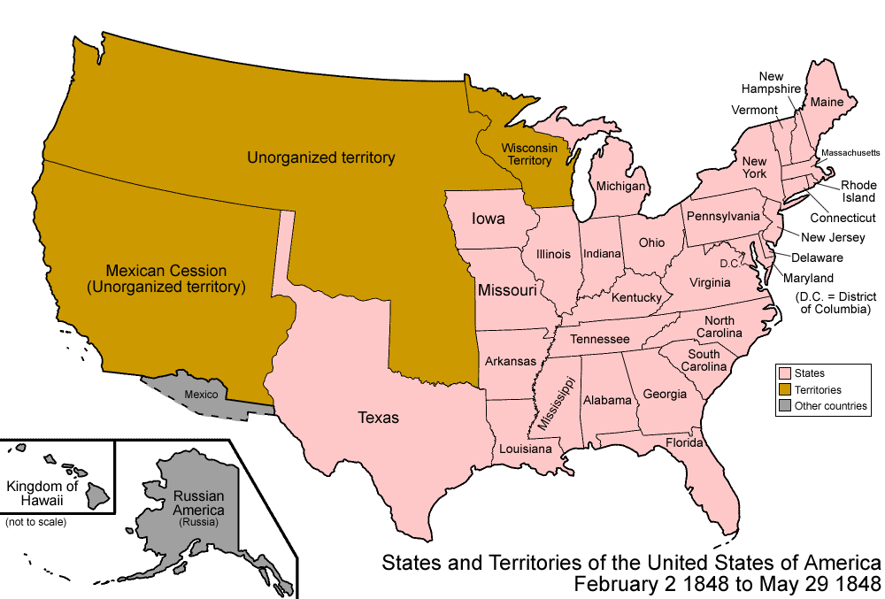 Map of the states and territories of the United States as it was from February 1848 to May 1848. On February 2 1848, as a result of the Mexican-American War, Mexico ceded a large portion of its land to the United States. On May 29 1848, most of Wisconsin Territory was admitted as the state of Wisconsin, and the remainer became unorganized.